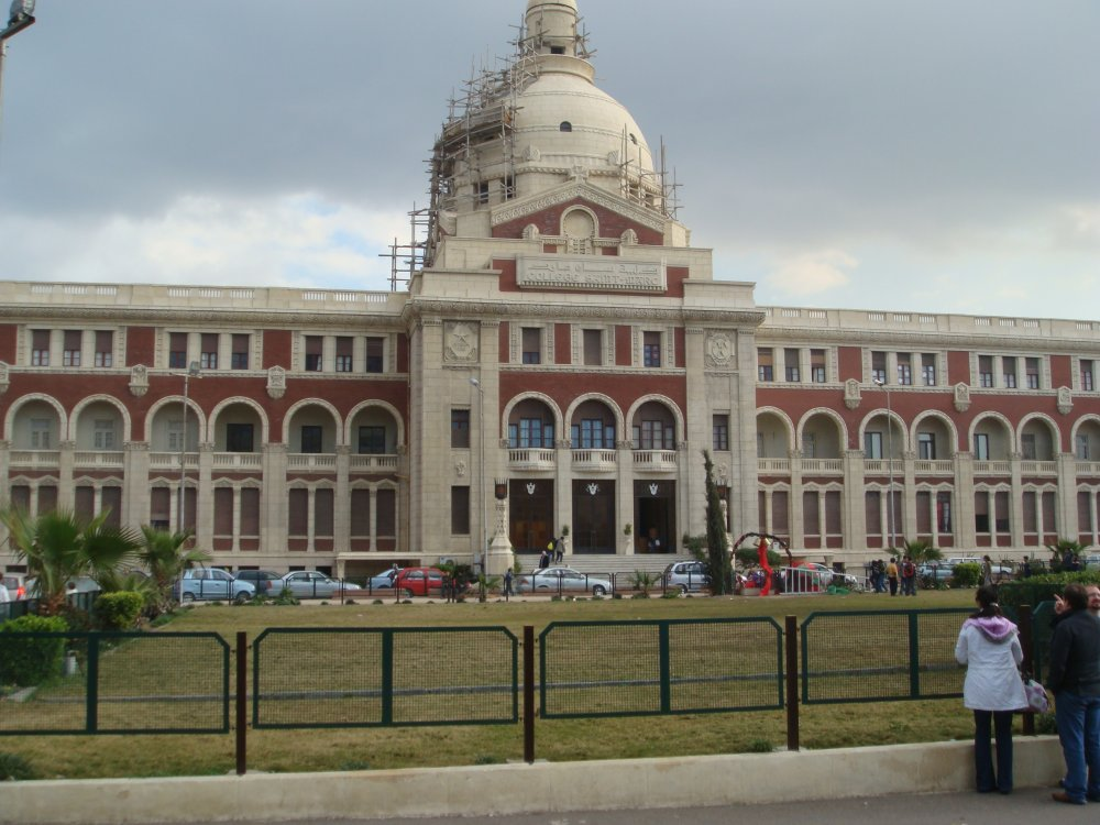 College Saint Marc in Alexandria, Egypt